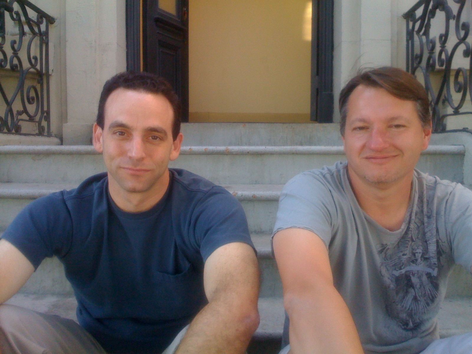 Screenwriters Ethan Reiff and Cyrus Voris on the set of a production they wrote.